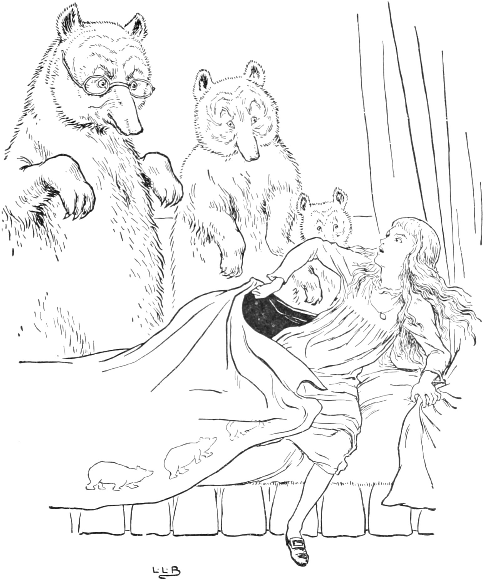 image appearing on pg 25 of The Story of the Three Bears.